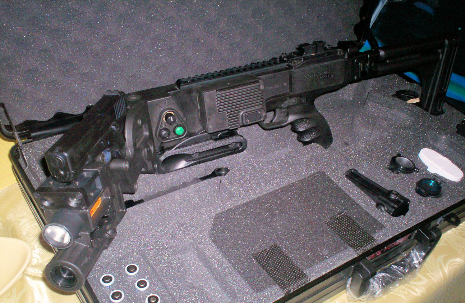 CornerShot, manuf. by Corner Shot Holdings, LLC. Photo of non-functional display model taken at Eurosatory expo at the Parc des Expositions outside Paris on June 13, 2006.